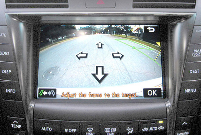 APGS display